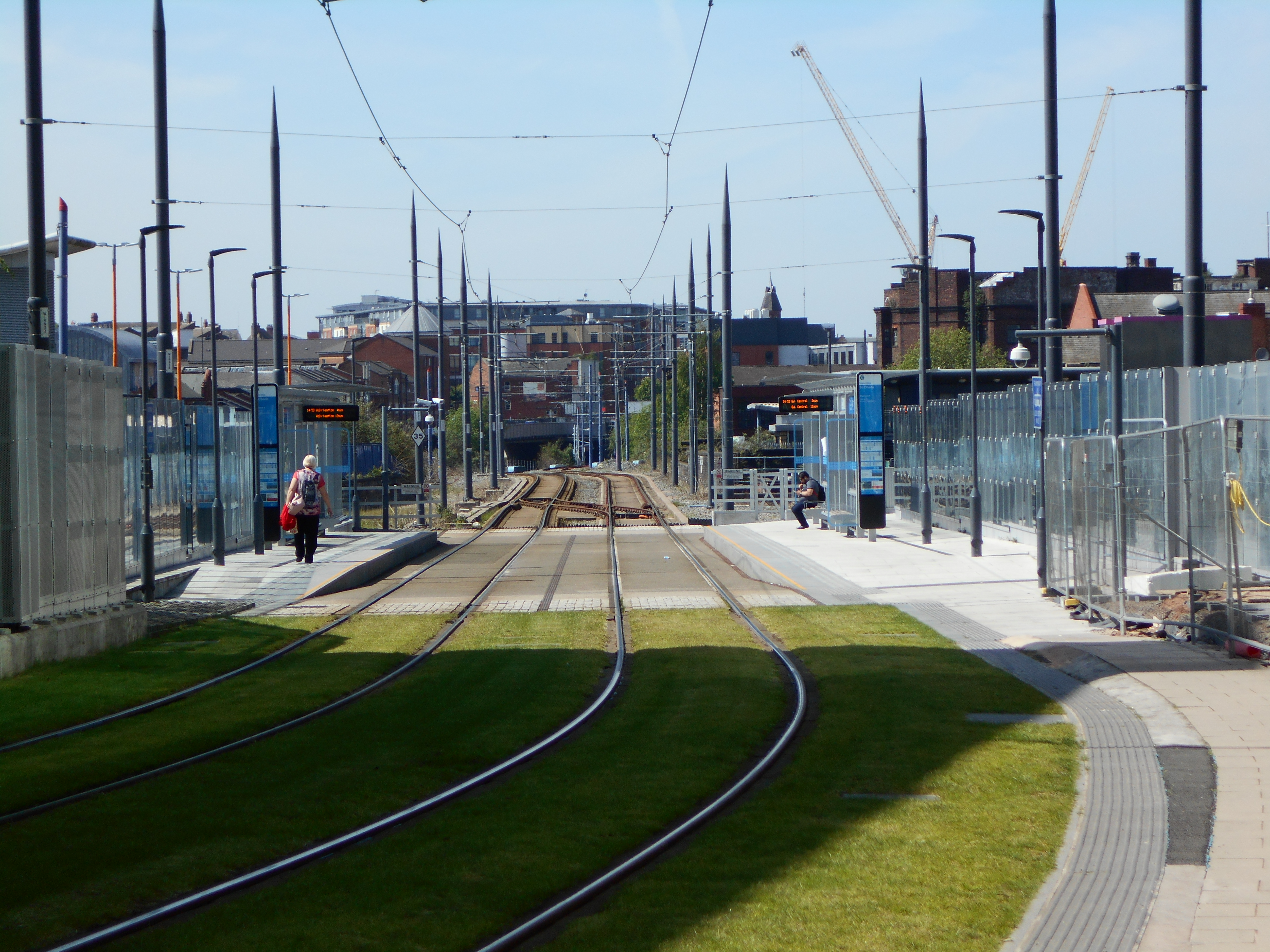 St Chads tram stop, looking towards Wolverhampton.